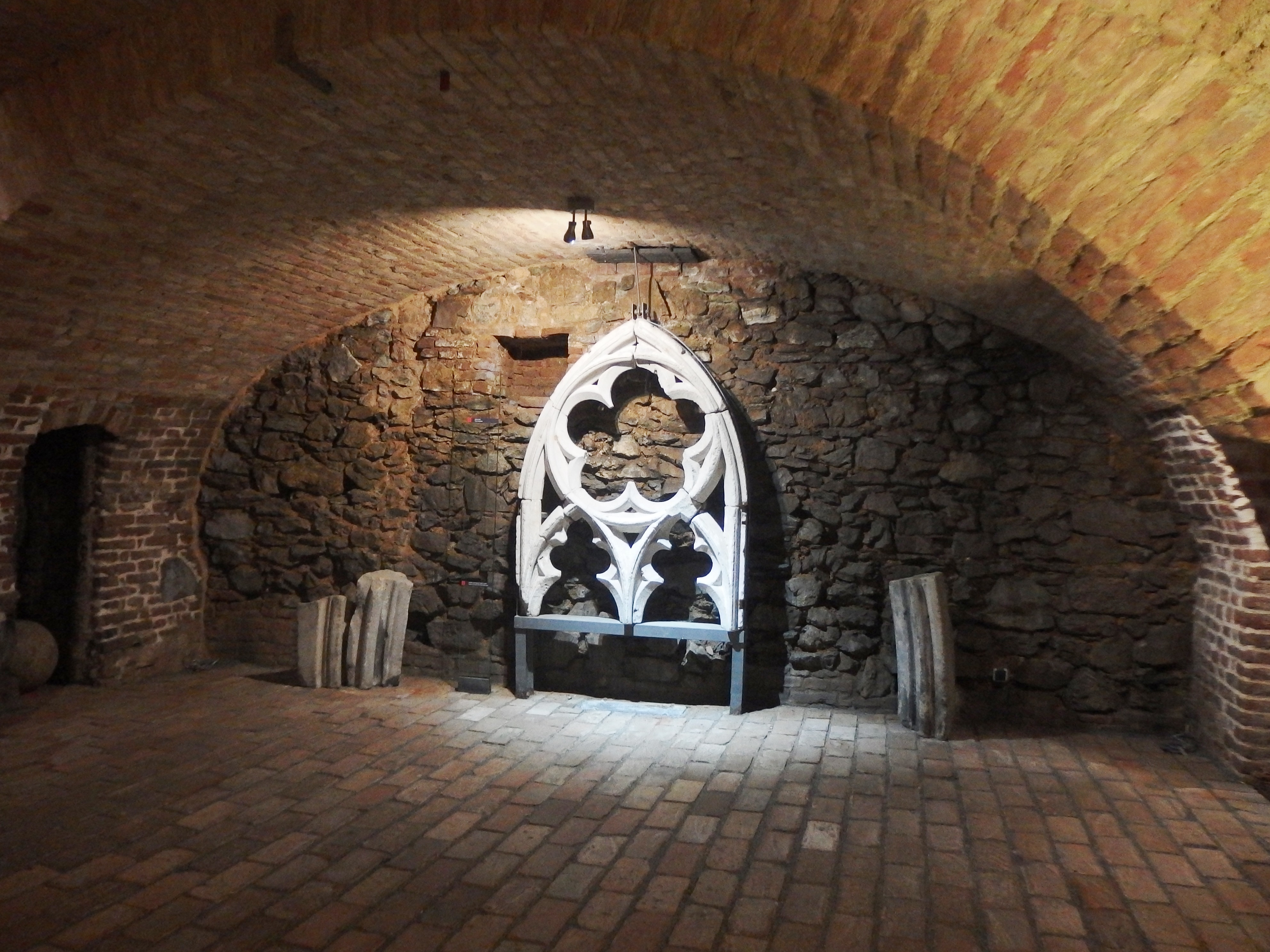 Brno, Czech Republic. Mintmaster's cellar.